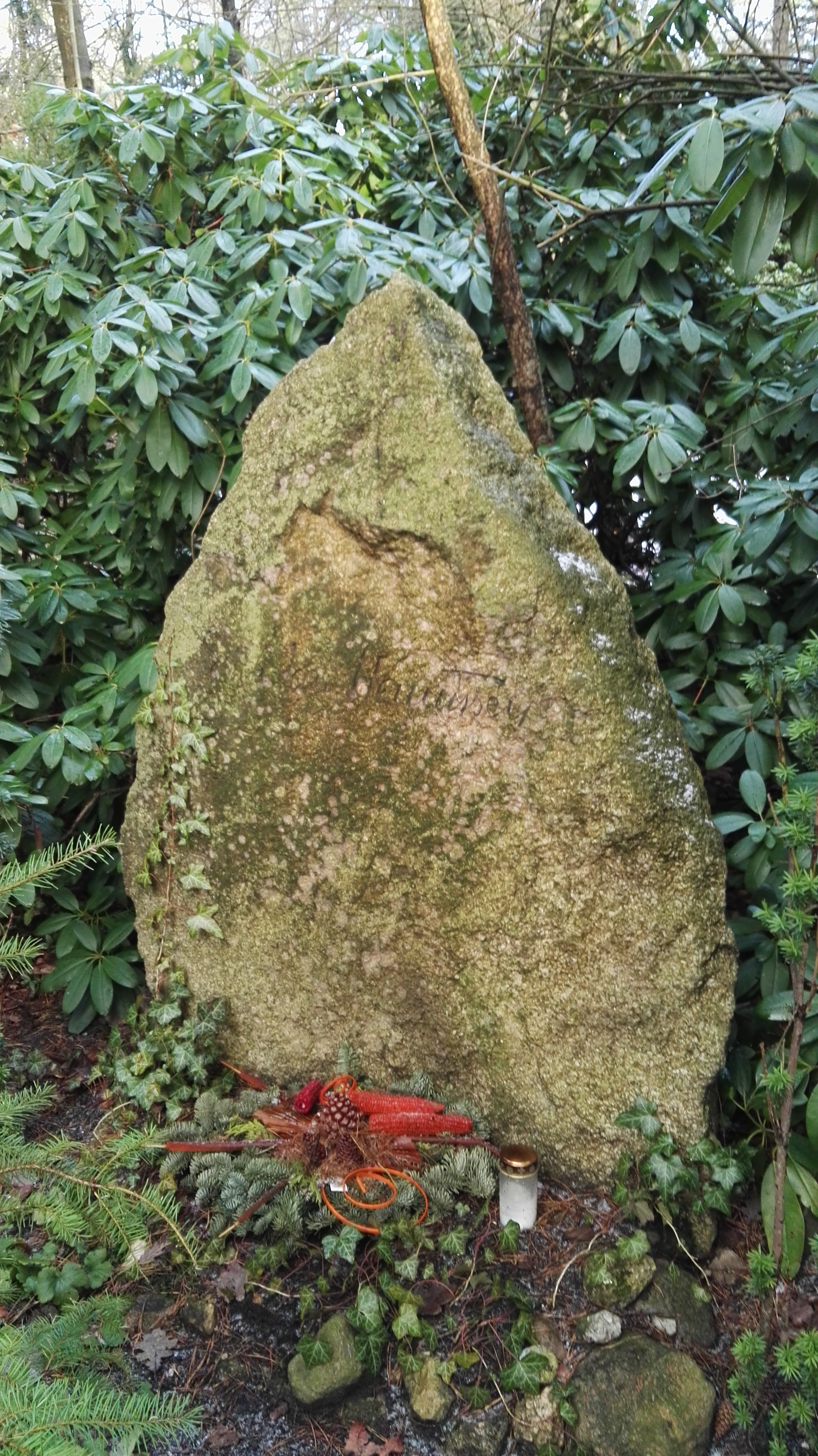 Erik Jan Hanussen (born Hermann Steinschneider), an Austrian clairvoyant performer.